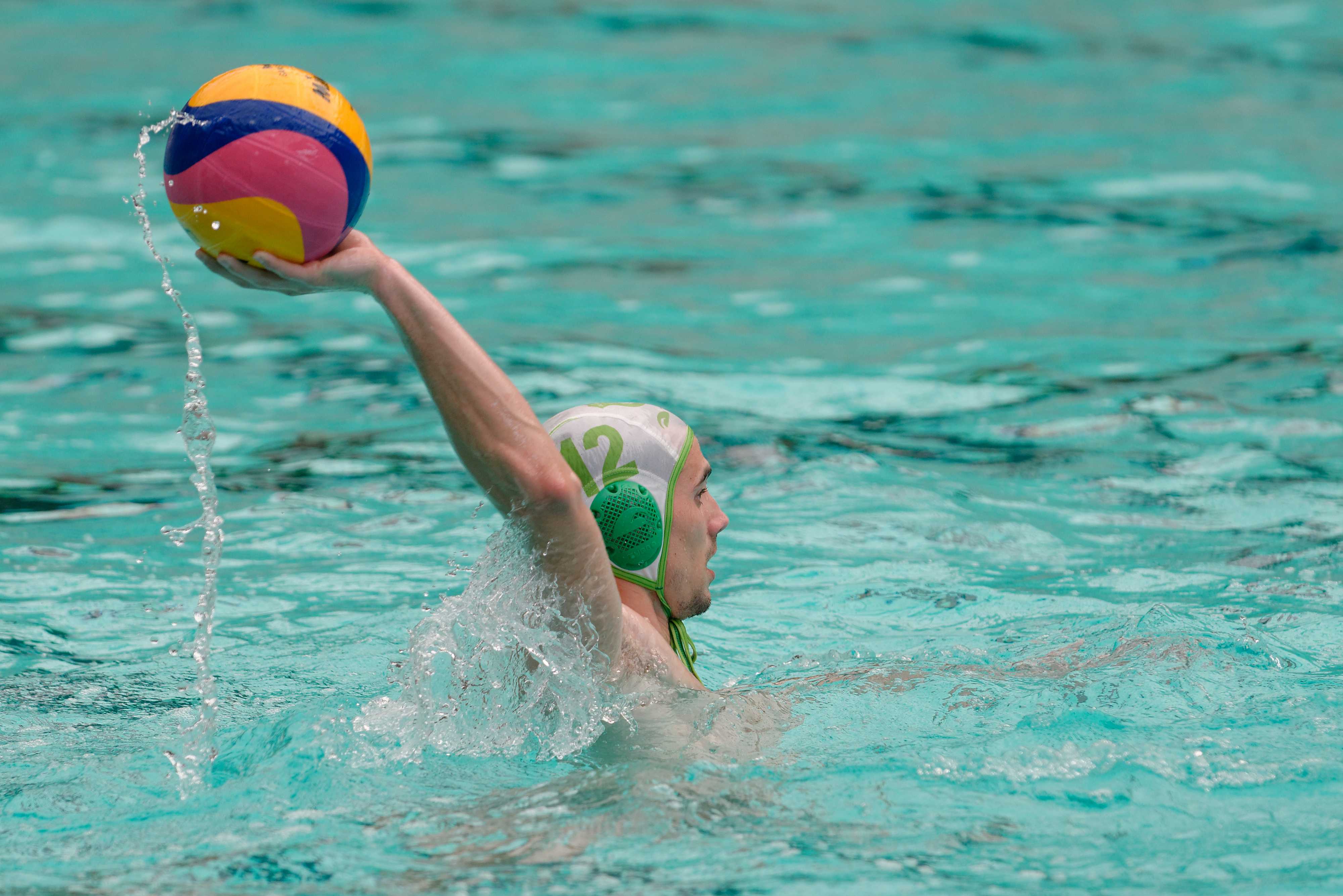 DFC Sète's Dražen Kujačić prepares to throw the ball in their quarter-final against FNC Douai of the 2014 League Cup at the Georges Vallerey swimming pool in Paris.